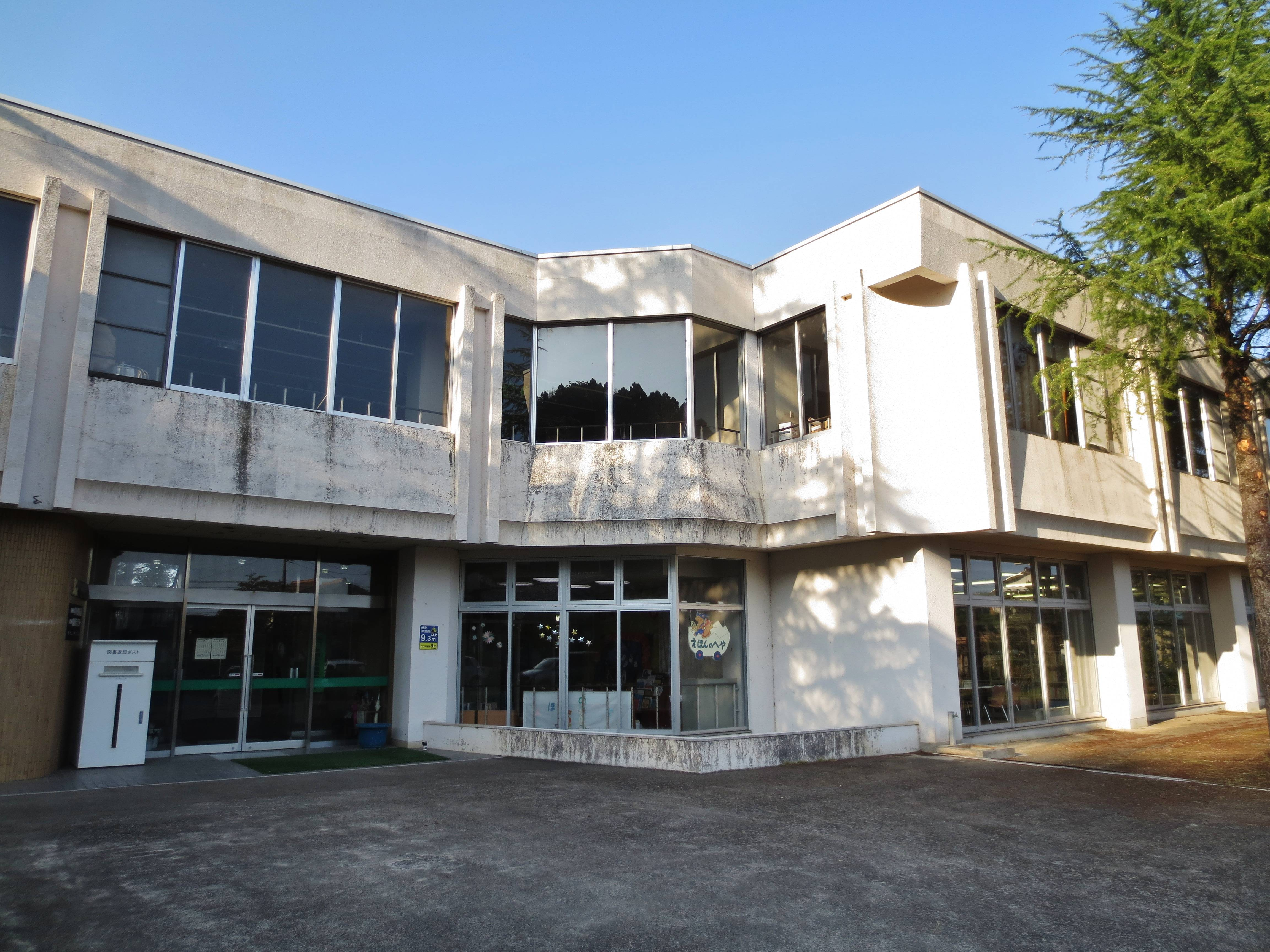 Suzu city library.